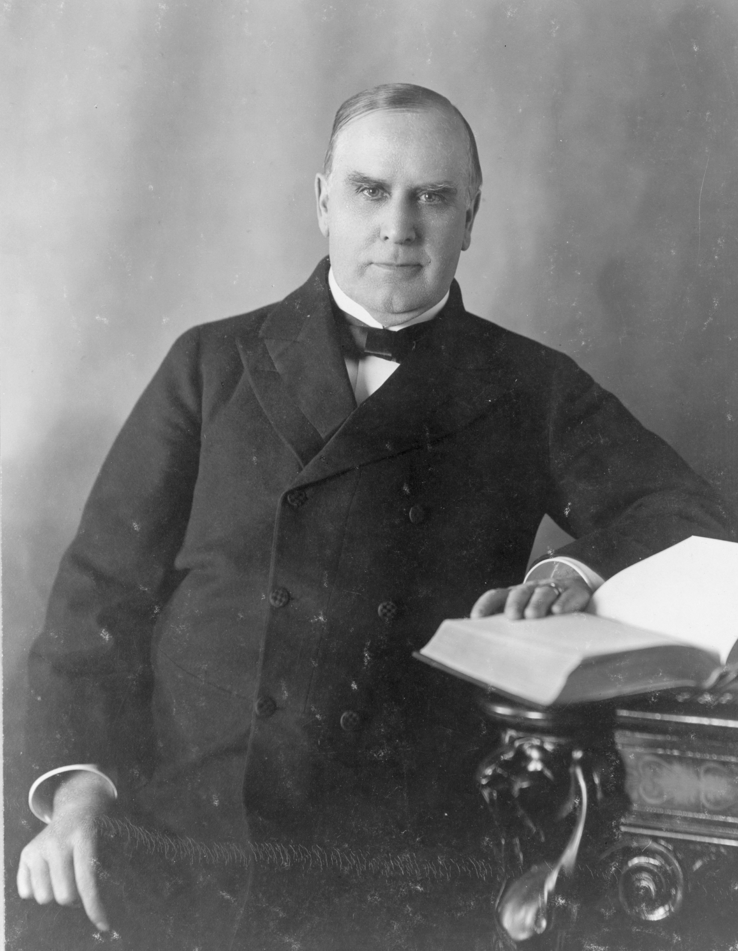 President William McKinley, half-length portrait, seated at desk, facing front (cropped)